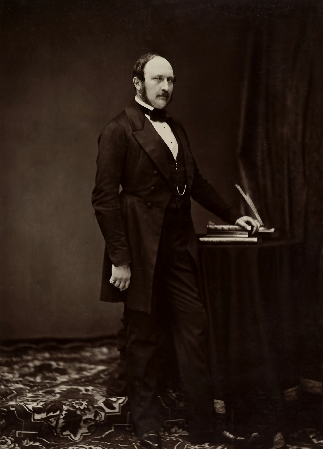 Albert, Prince Consort 15 May 1860 J.J.E. Mayall Printed in carbon c.1889-91 by Hughes & Mullins 40 × 28.5 cm Commissioned by Queen Victoria